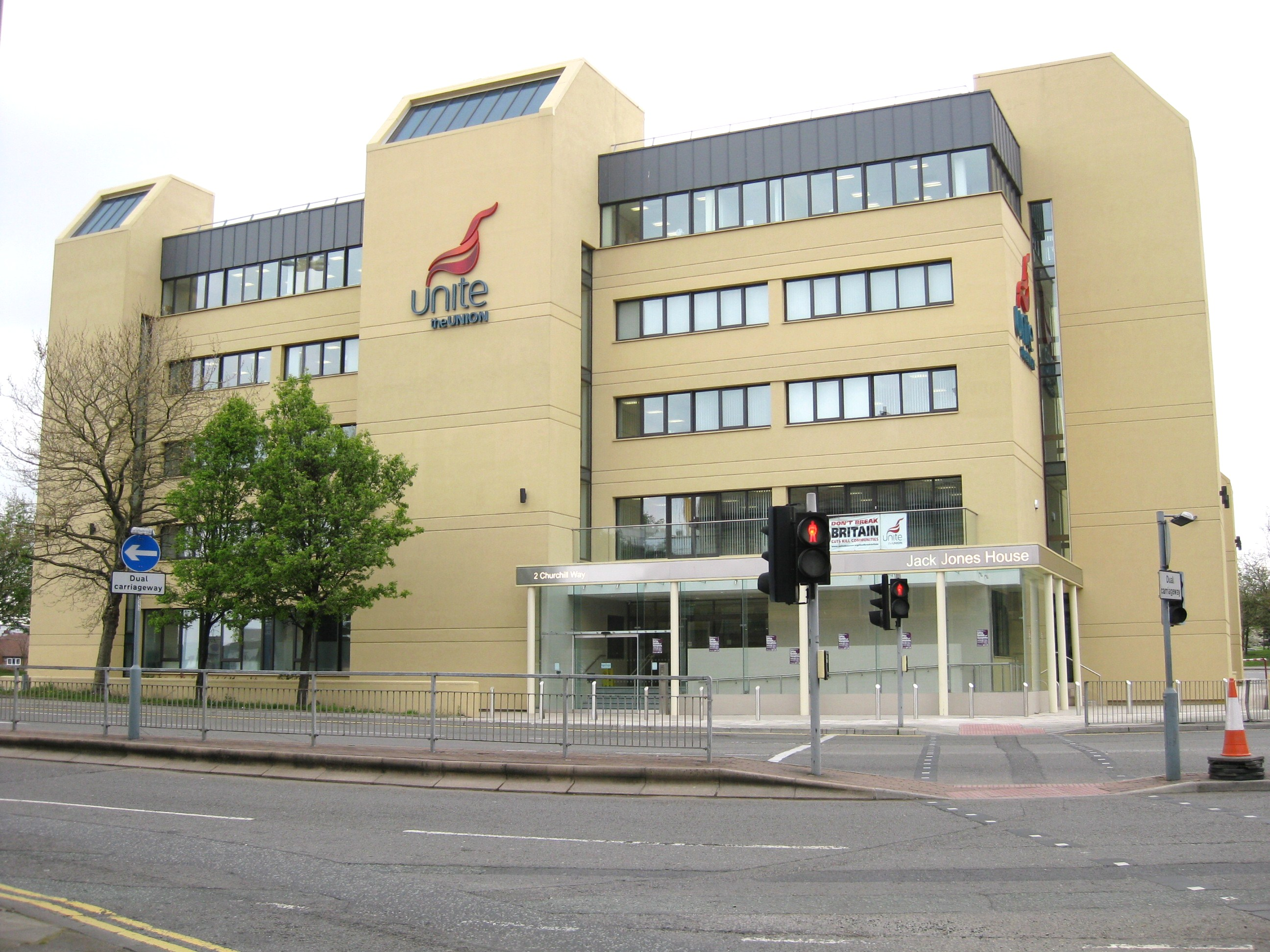 Jack Jones House (formerly Transport House) Commutation Row, Liverpool, L3.. 1970s building for the TGWU, refurbished and renamed 2009 for Unite the Union.